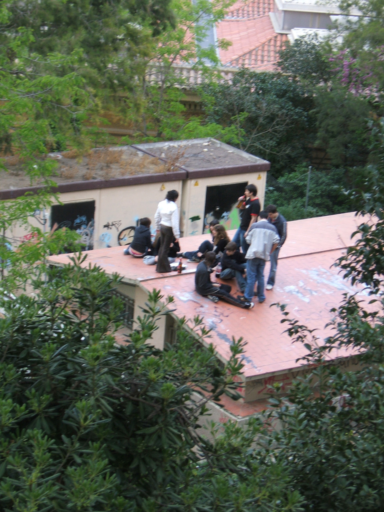 Catalans bunking off for beer